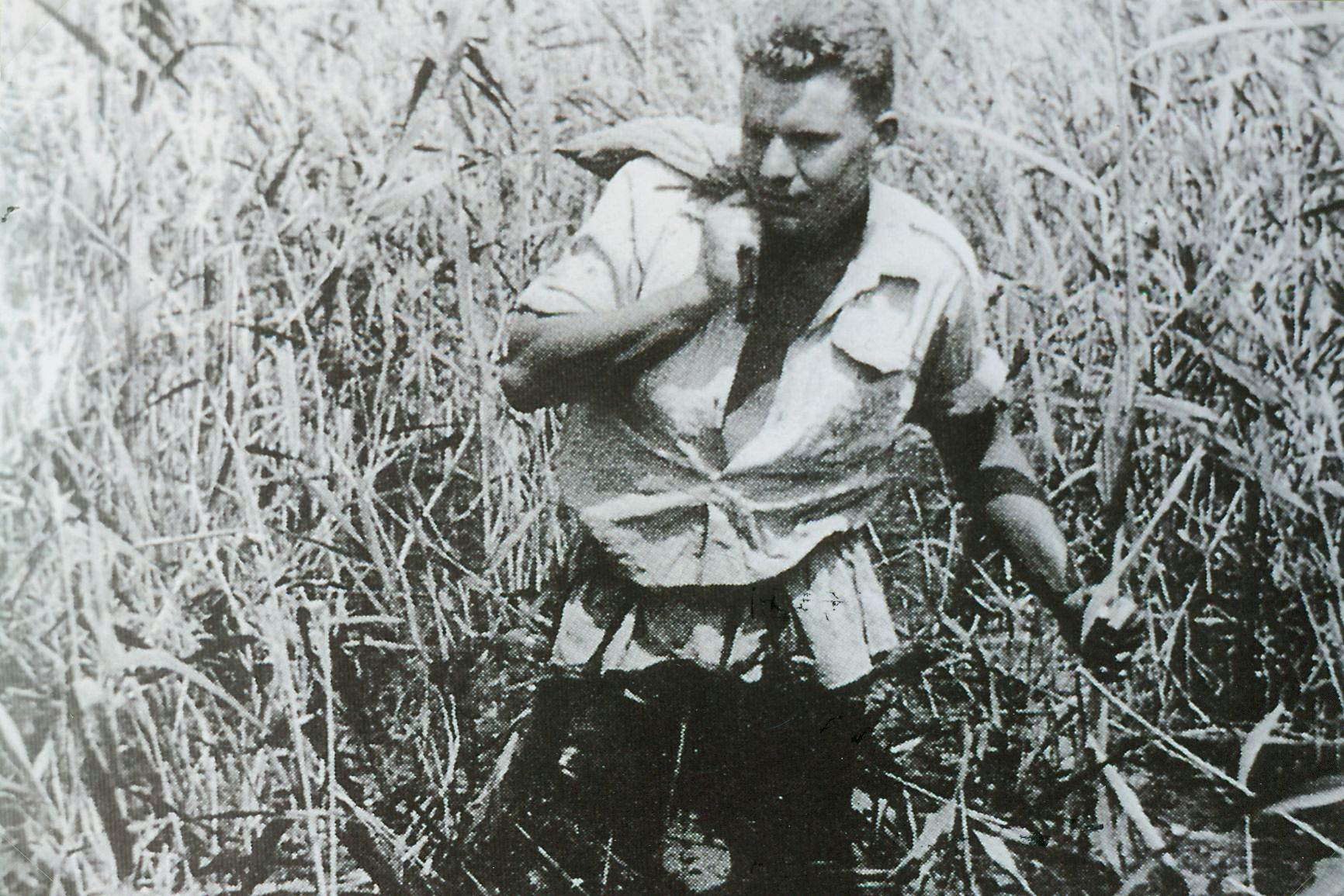 This picture shows biologist Otto Koenig in the reed belt of Lake Neusiedl in 1938.